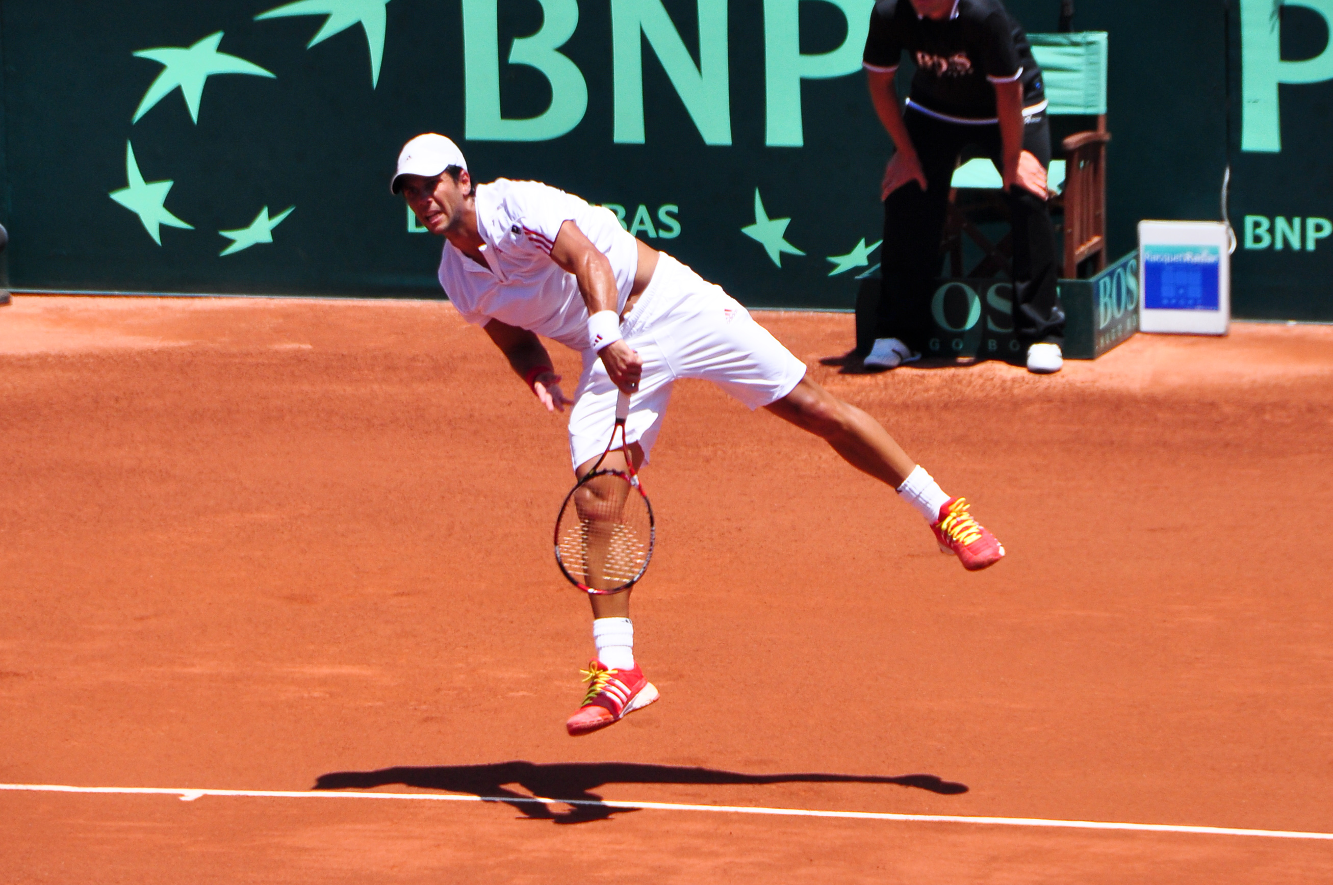 Fernando Verdasco against Andreas Beck in the 2009 Davis Cup semifinals (Spain vs. Germany)